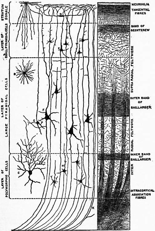 Brain, Cerebral Cortex